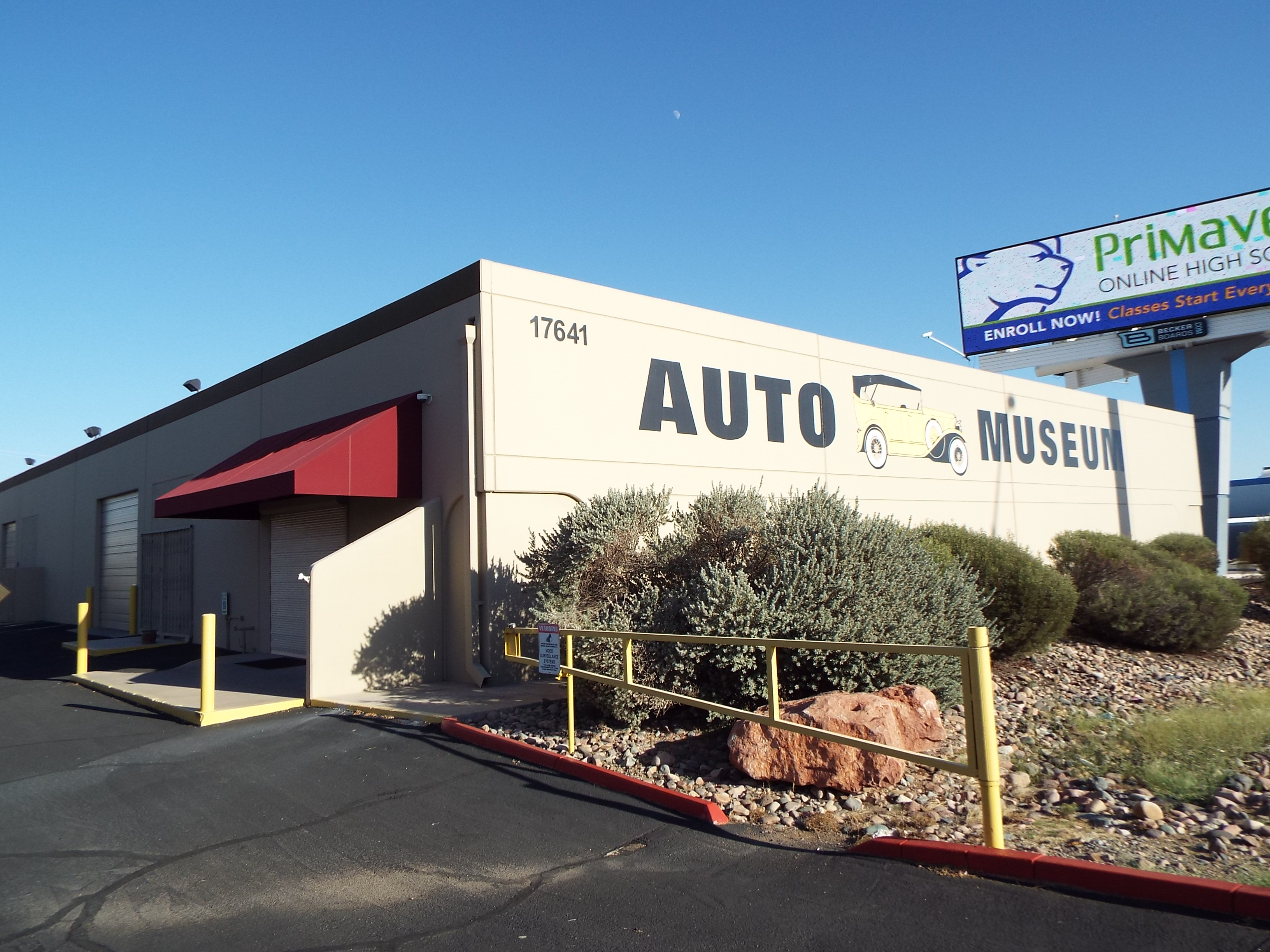 Martin Auto Museum located in Phoenix, Az.